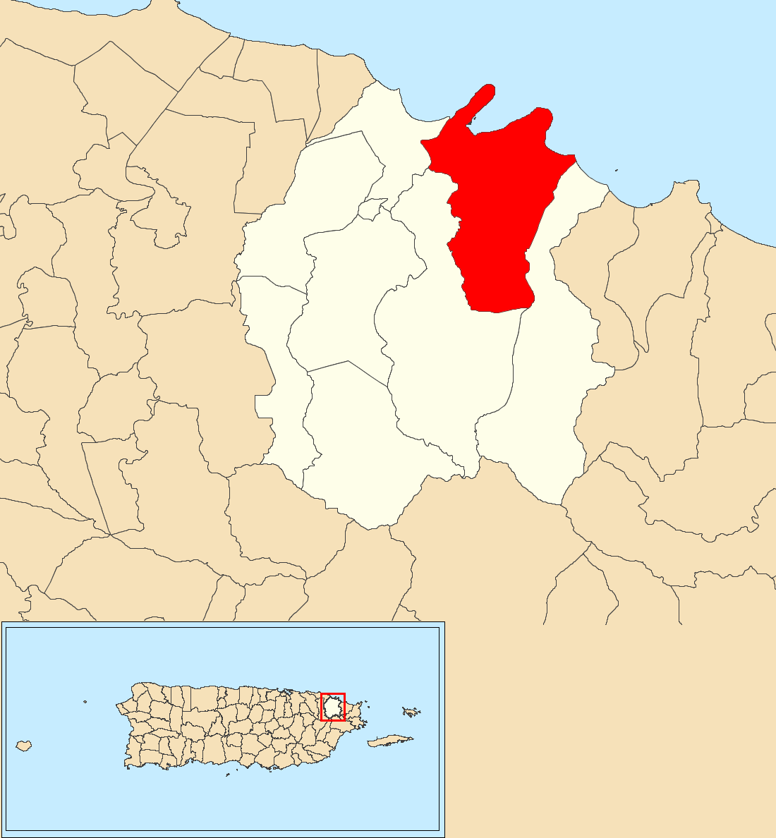 Zarzal, Río Grande, Puerto Rico locator map